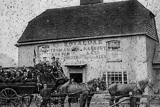 An old photograph of the Royal Oak, Frindsbury. Approx. 100 years old (given the presence of the horses).